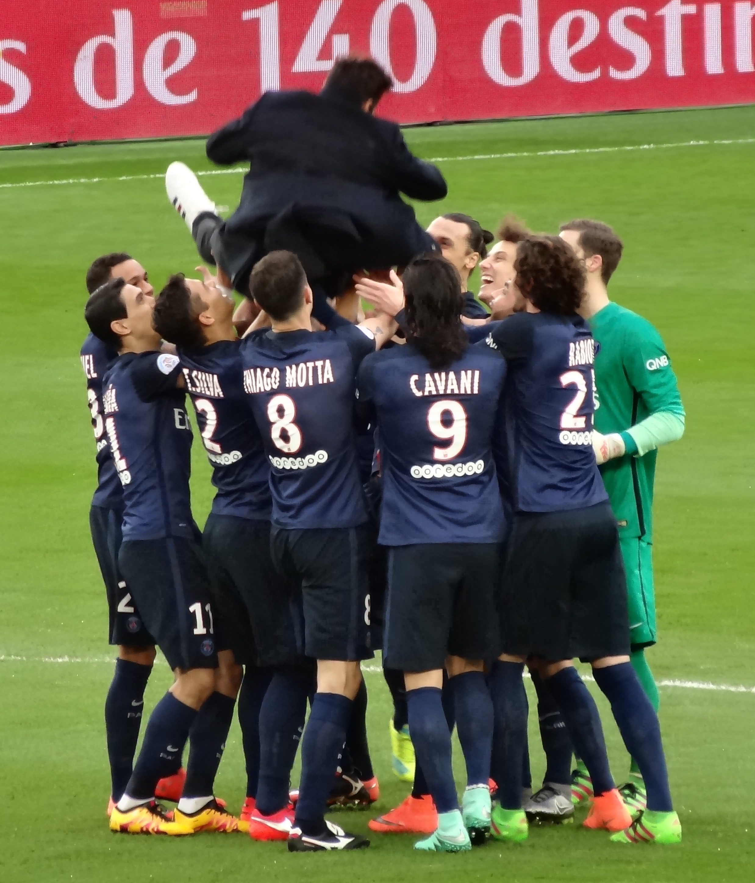 Good bye Lavezzi (PSG)